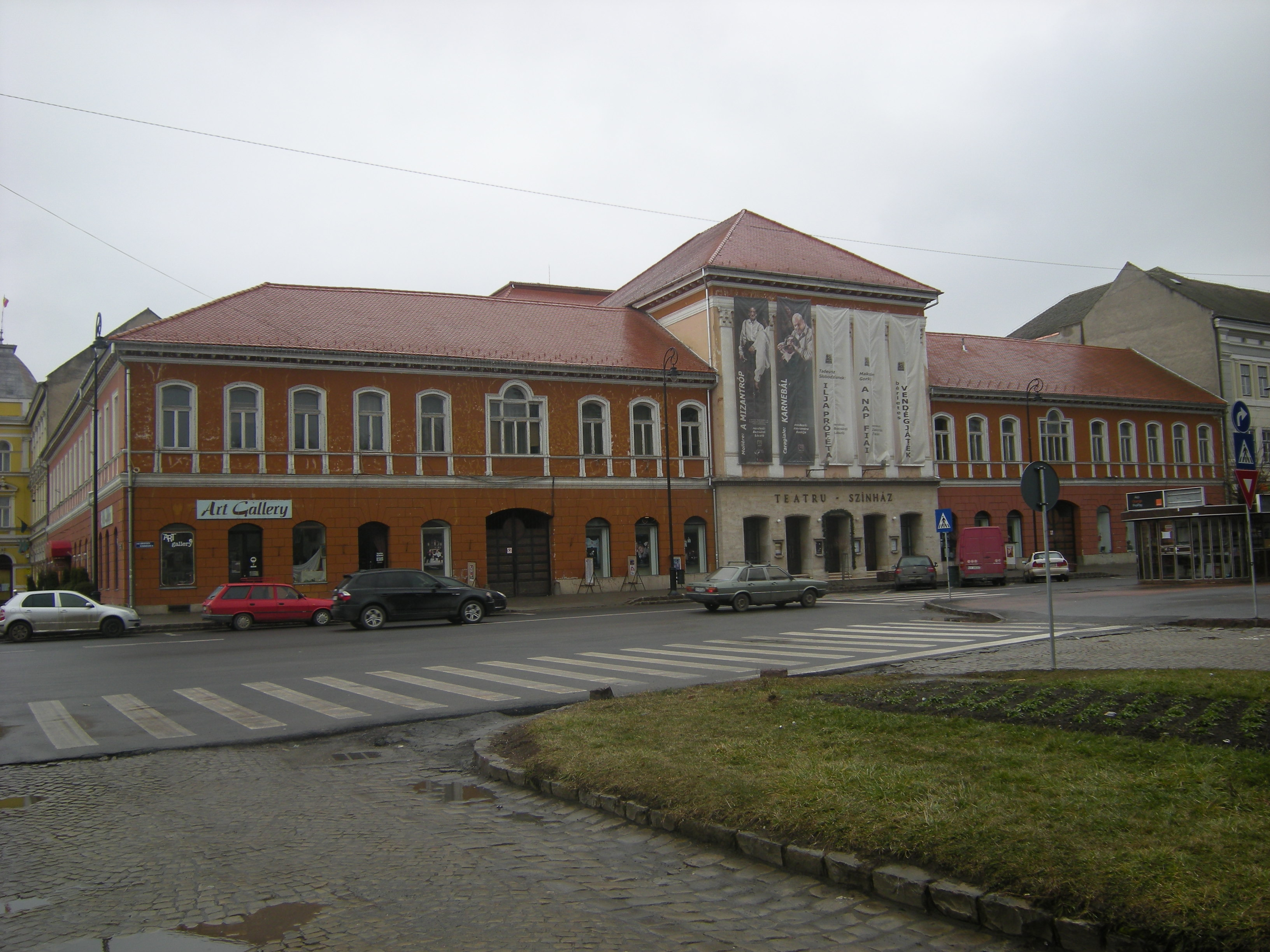 Tamási Áron Theatre, Sepsiszentgyörgy